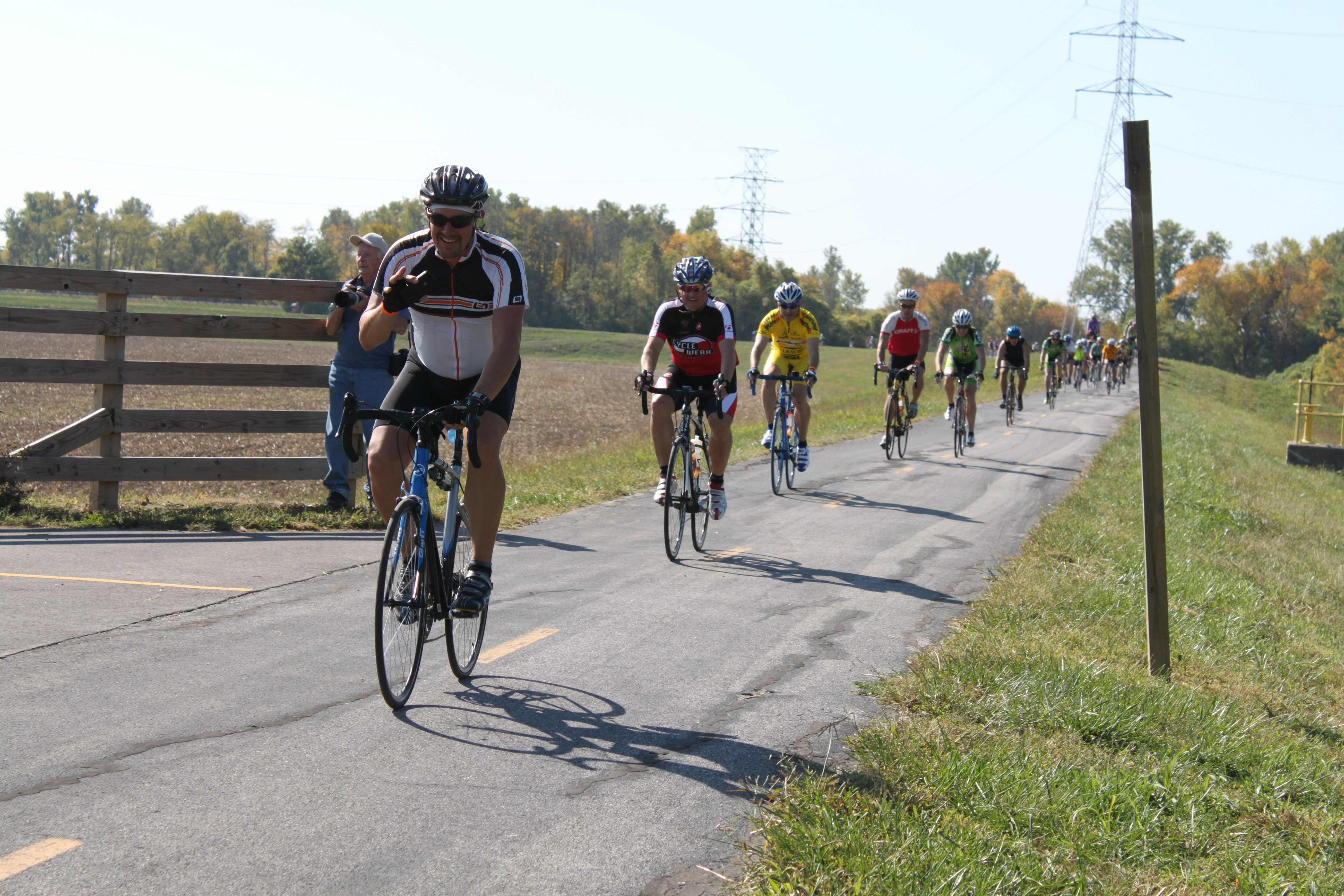 A century ride in Illinois called "Ride the Rivers".